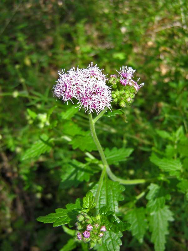 Common weed.